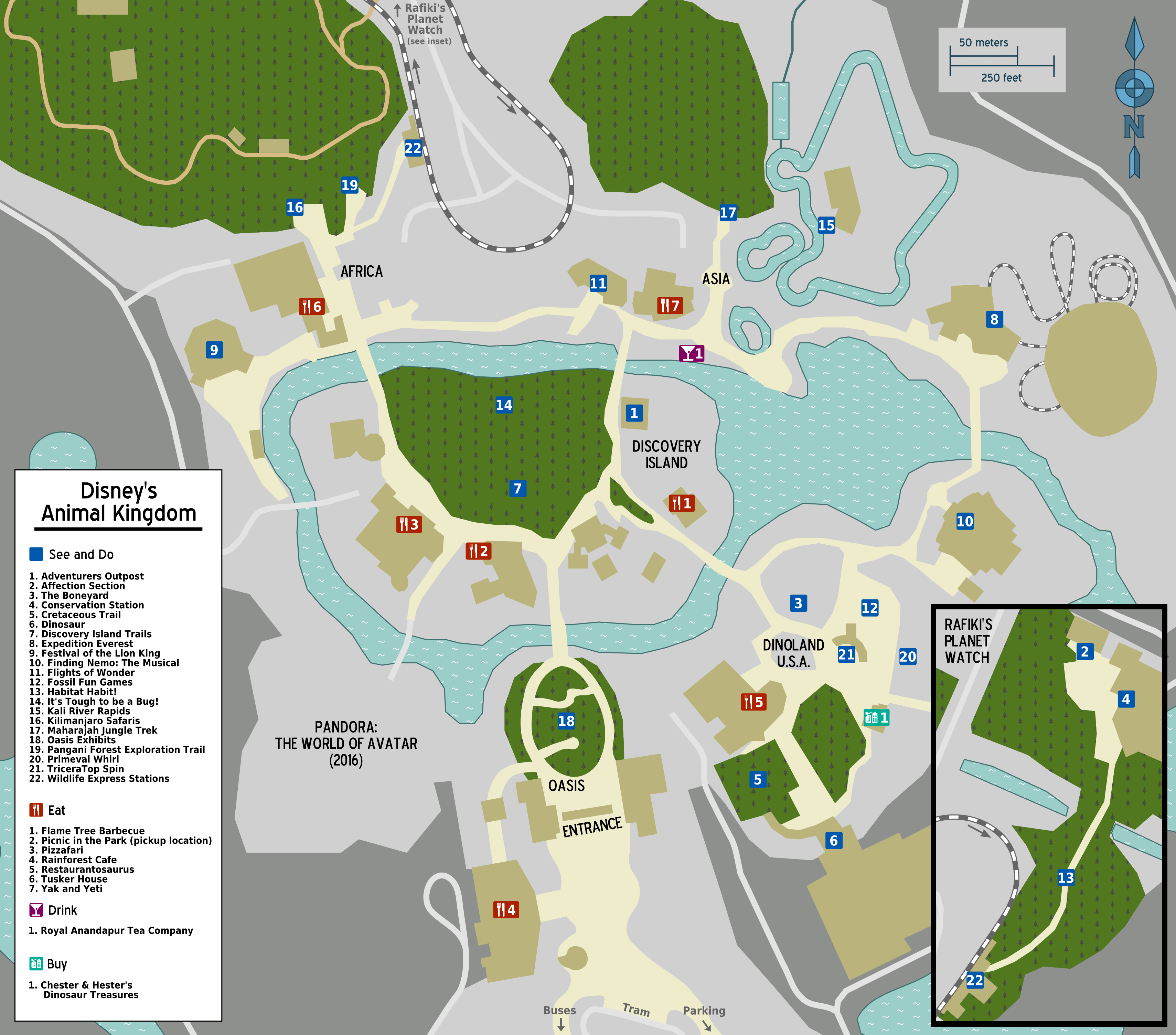 Disney's Animal Kingdom. Map of Disney's Animal Kingdom at Walt Disney World in Florida.